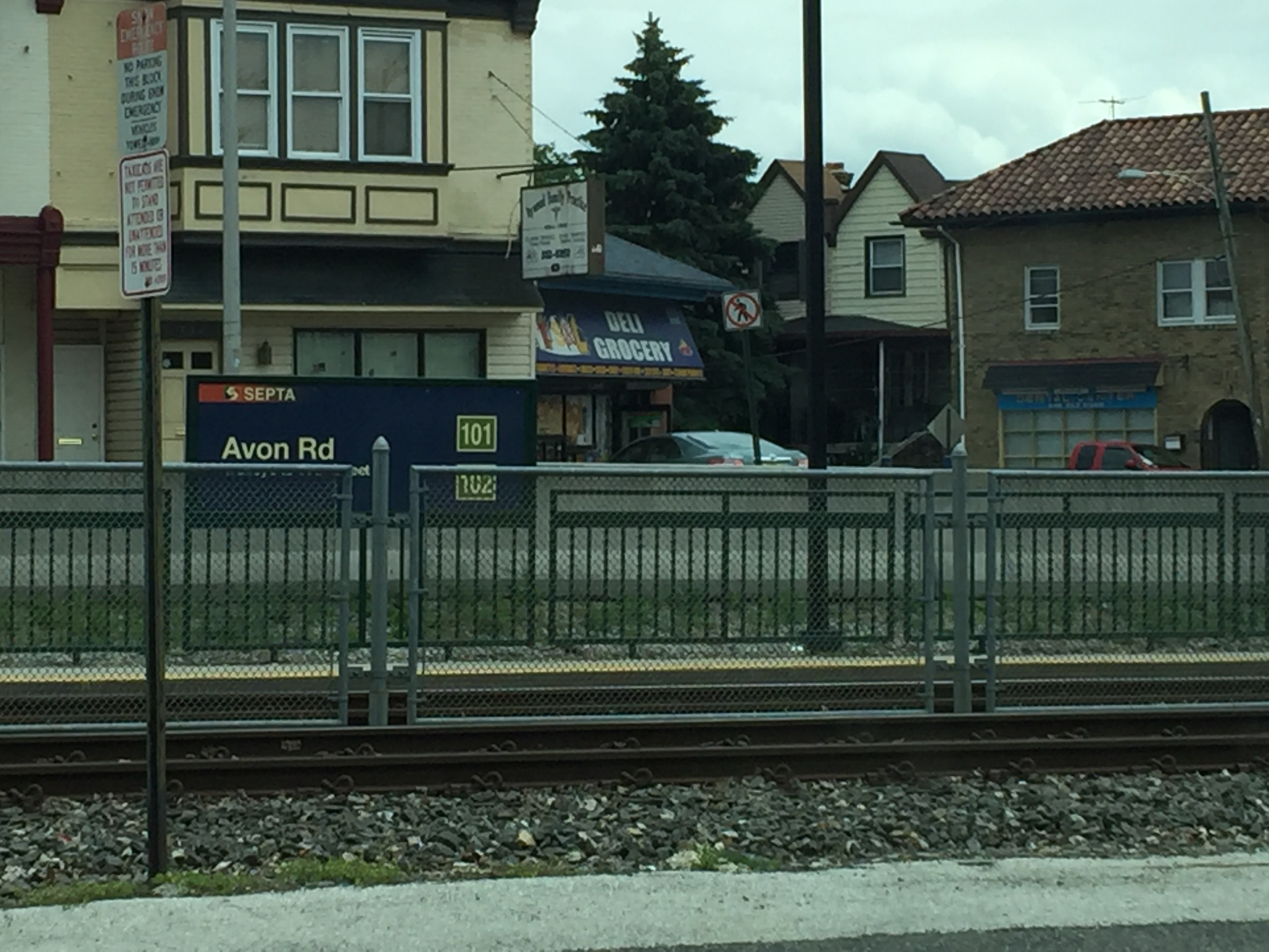 Avon road station